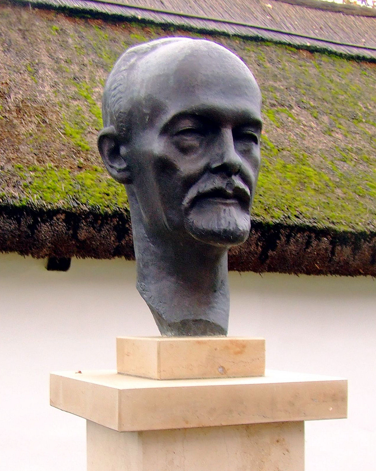 Otto Manninen by Wäinö Aaltonen (2004 bronze bust) in Kiskőrös, Petőfi Sándor Sculptur Park